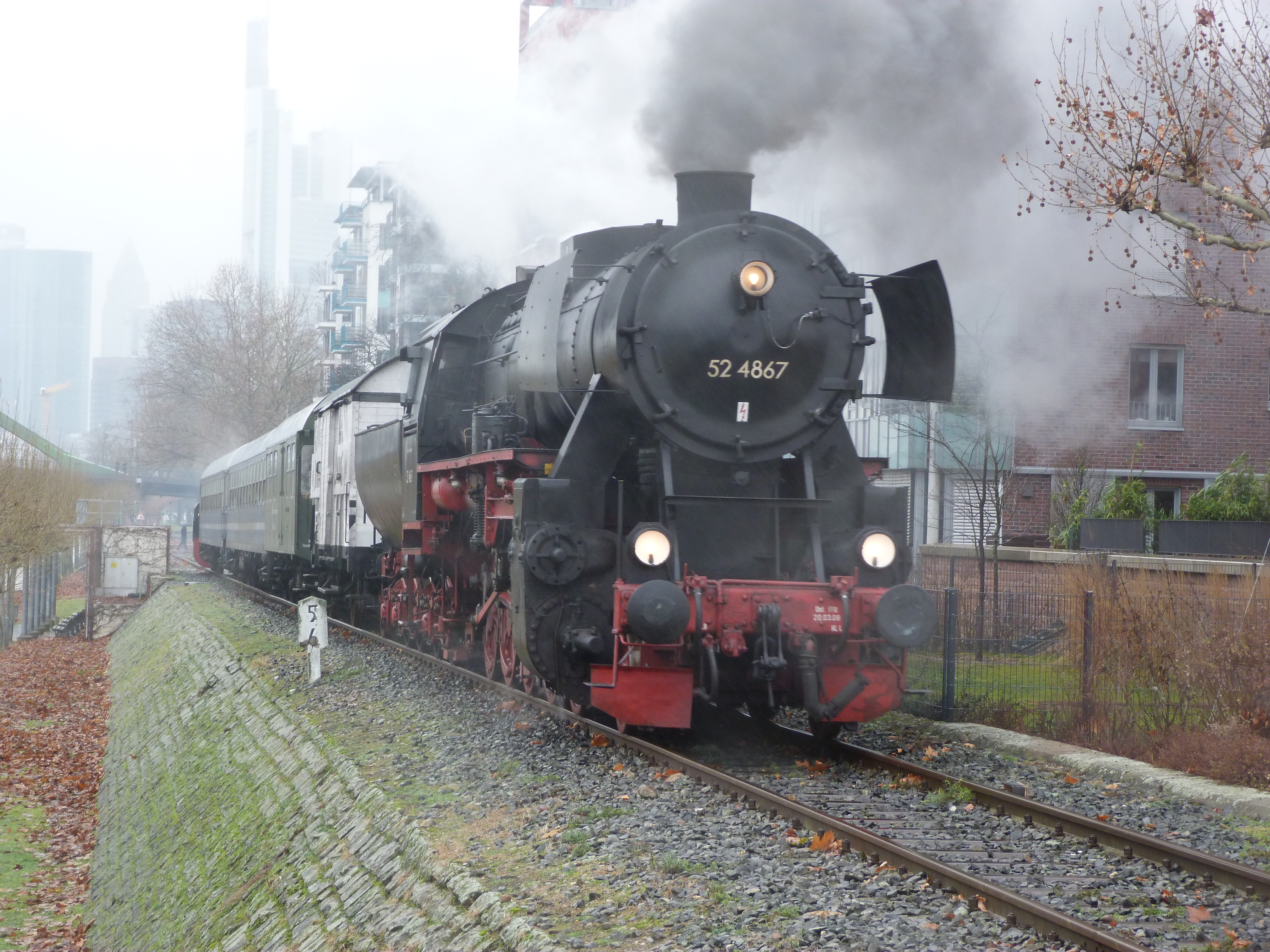 Steam engine 52 4867 in Frankfurt's east end.